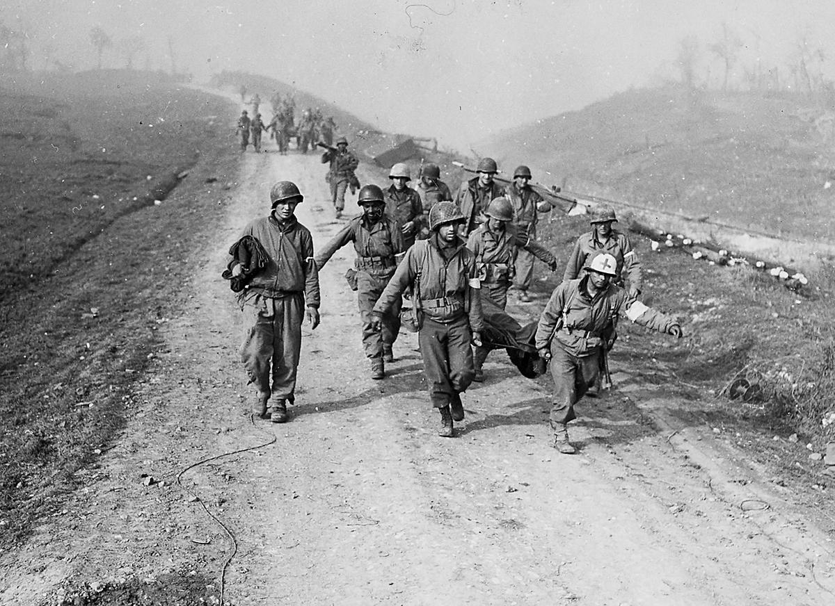 Litter bearers bring back wounded during attempt to span the Rapido River near Cassino, Italy.” 23 January 1944